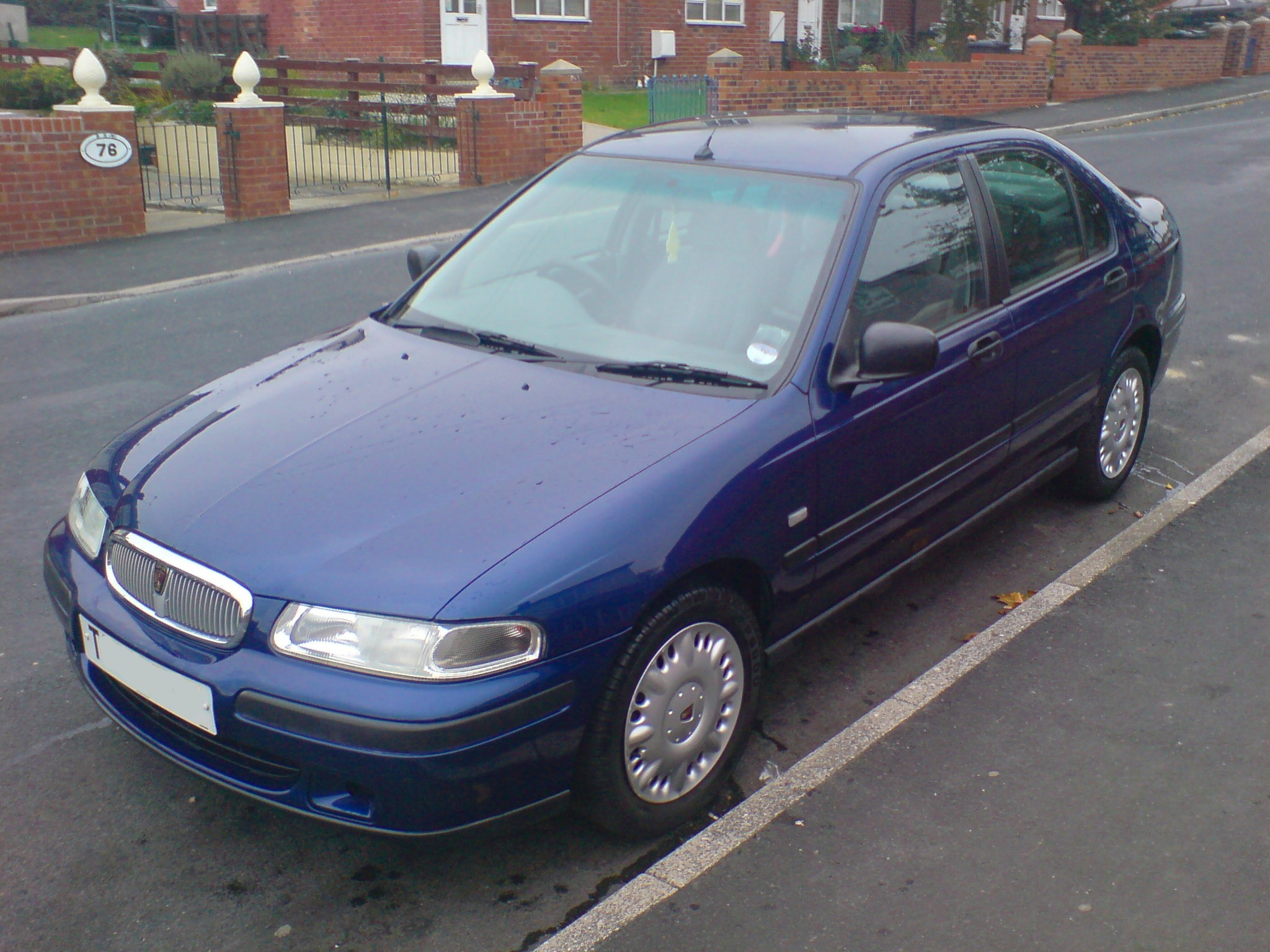 1999 Rover 420Si 4dr Saloon (H-HR)